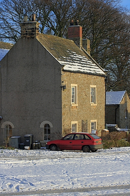 The Old Grammar School, Kirby Hill (Kirby Ravensworth), Richmondshire, North Yorkshire, in snow. Built in 1556, extended in 1706 and closed in 1957.